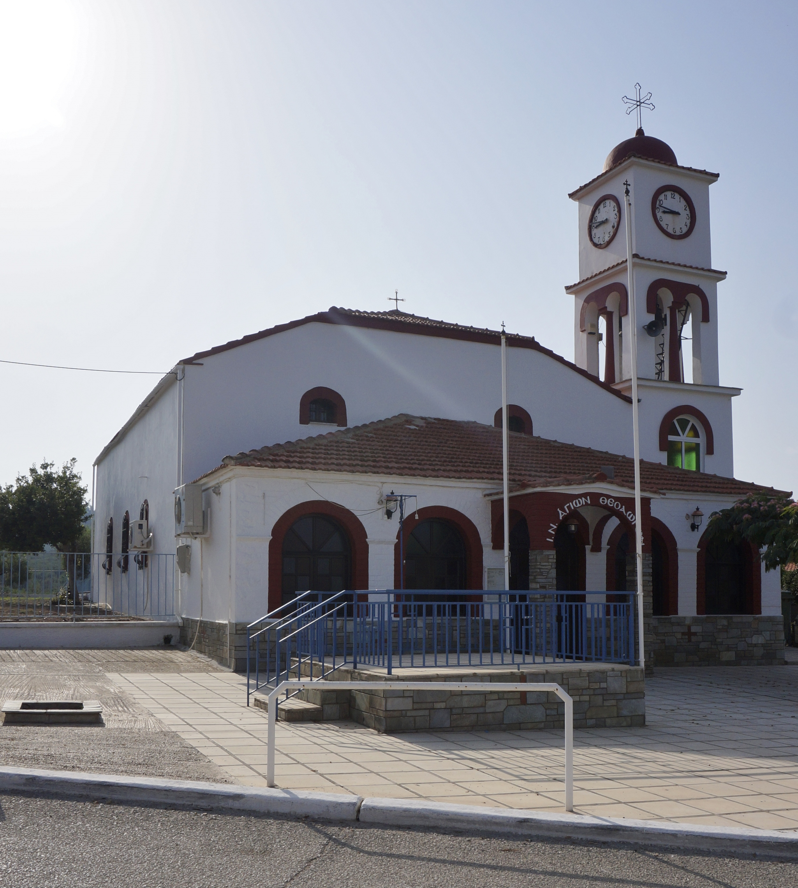 The church of Agii Theodori, patron saints of Yerakini, Chalkidiki, Greece